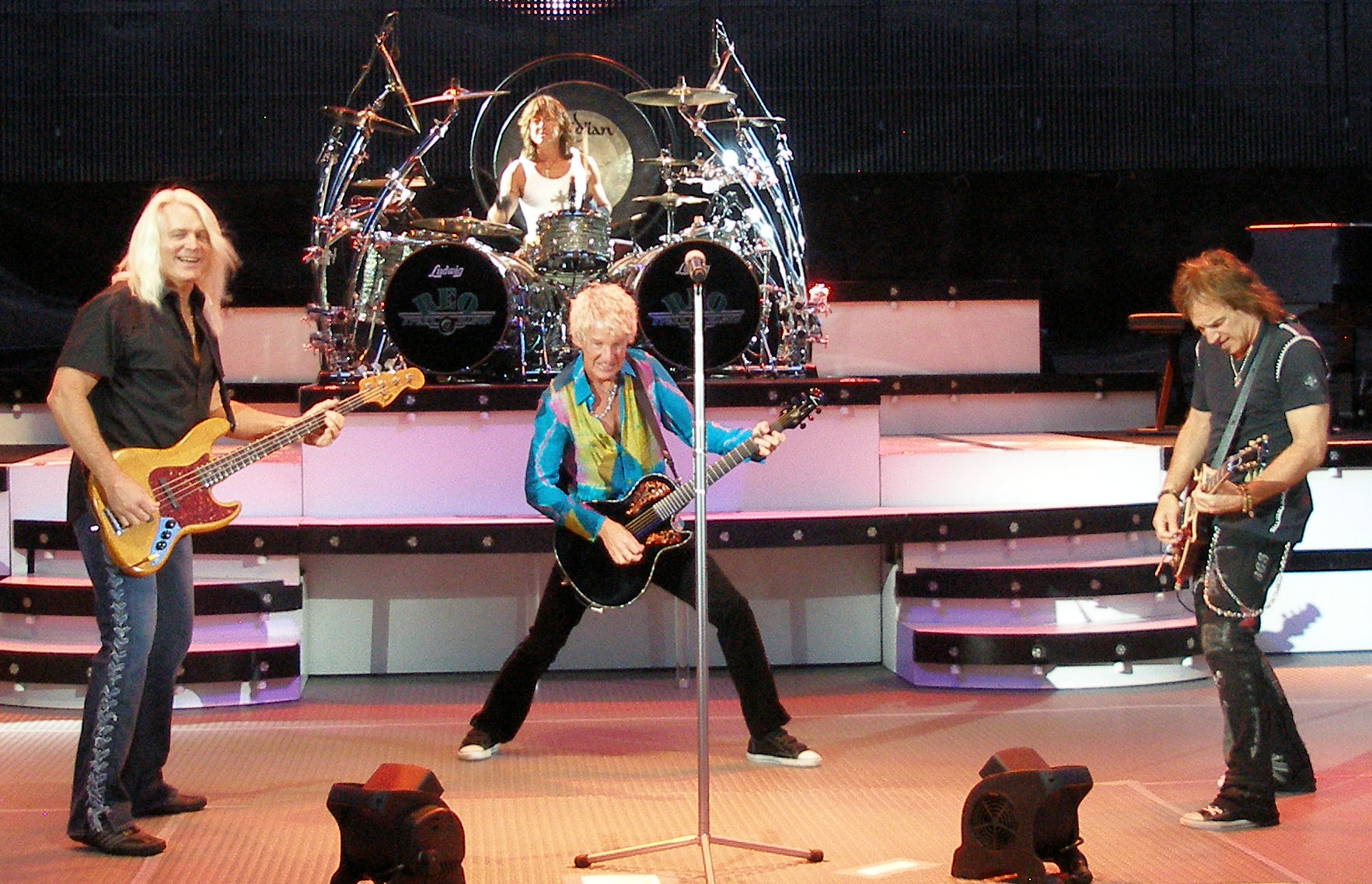 REO Speedwagon during the 2010 Love on the Run tour, at Red Rocks Amphitheater in Morrison, Colorado on July 21, 2010. From left to right Neal Doughty, Bruce Hall, Bryan Hitt, Kevin Cronin and Dave Amato.